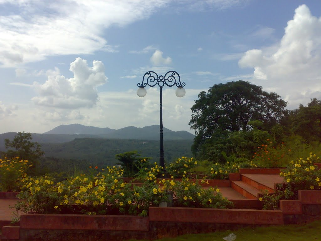 Kottakunnu